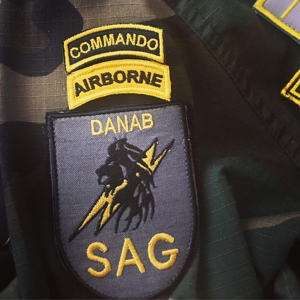 The Danab Commando Brigade, is an American trained Special Operations/Advanced Infantry Brigade, modeled on the US Army Rangers, it is considered as being the most effective Counter-insurgency unit in the Somali National Army.